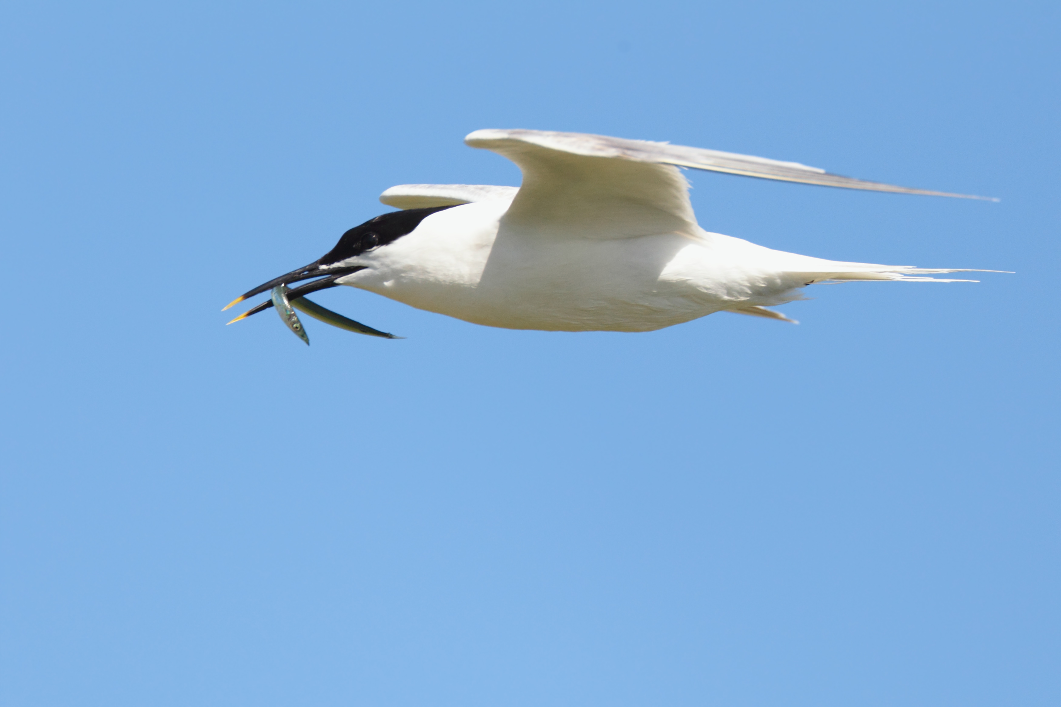 Sandwich Tern